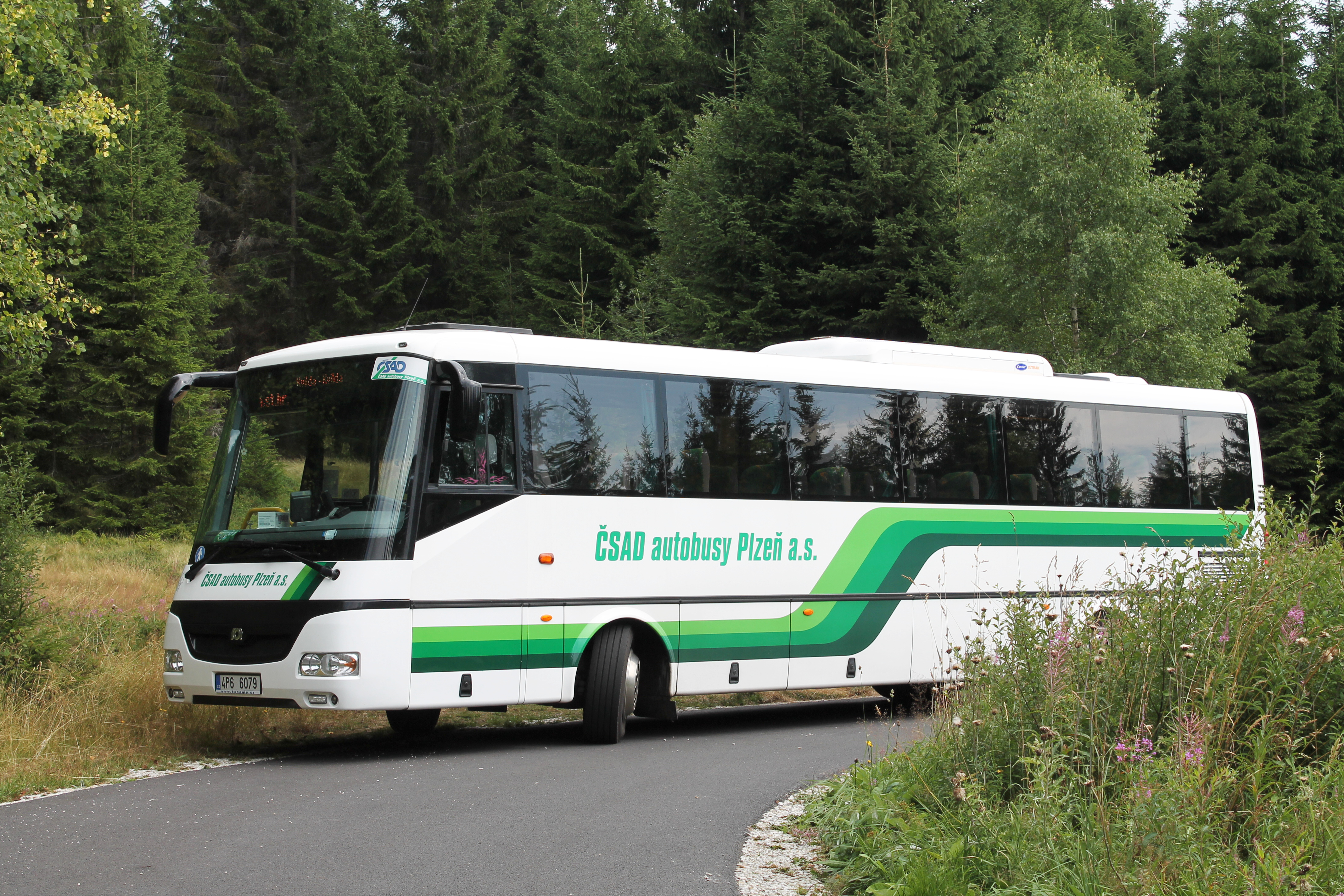 SOR C 10,5 bus of ČSAD autobusy Plzeň with cyclotrailer, Bučina, Kvilda, Prachatice District, Czech Republic - Google Maps - Google Earth